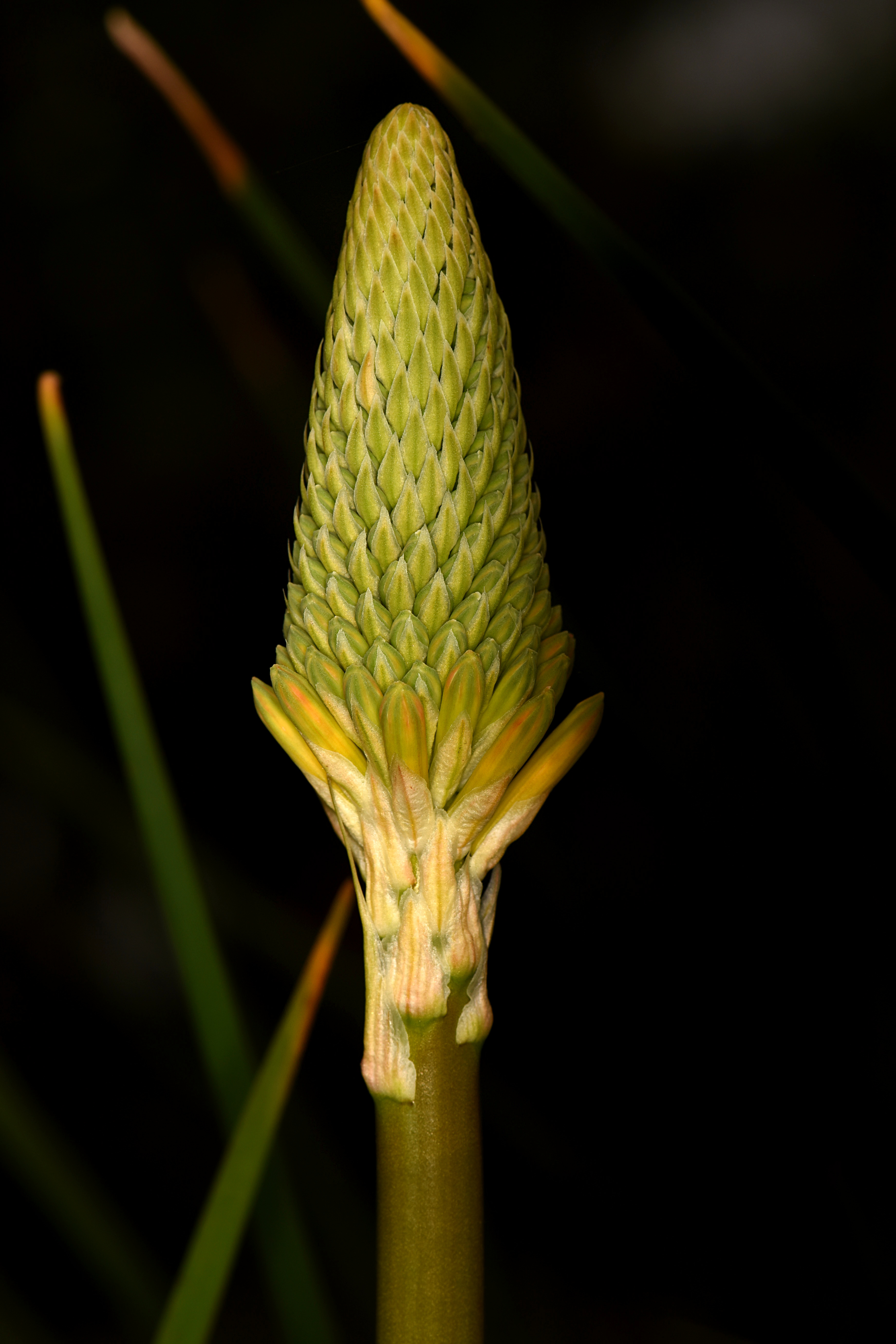 Kniphofia uvaria photographed in a garden near Lake Merritt in Oakland, California.